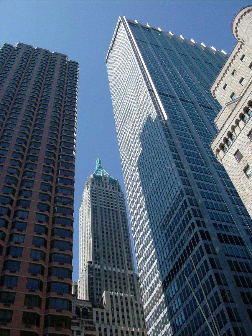 1 Chase Manhattan Plaza (right) and the 1929 Trump Building (center)